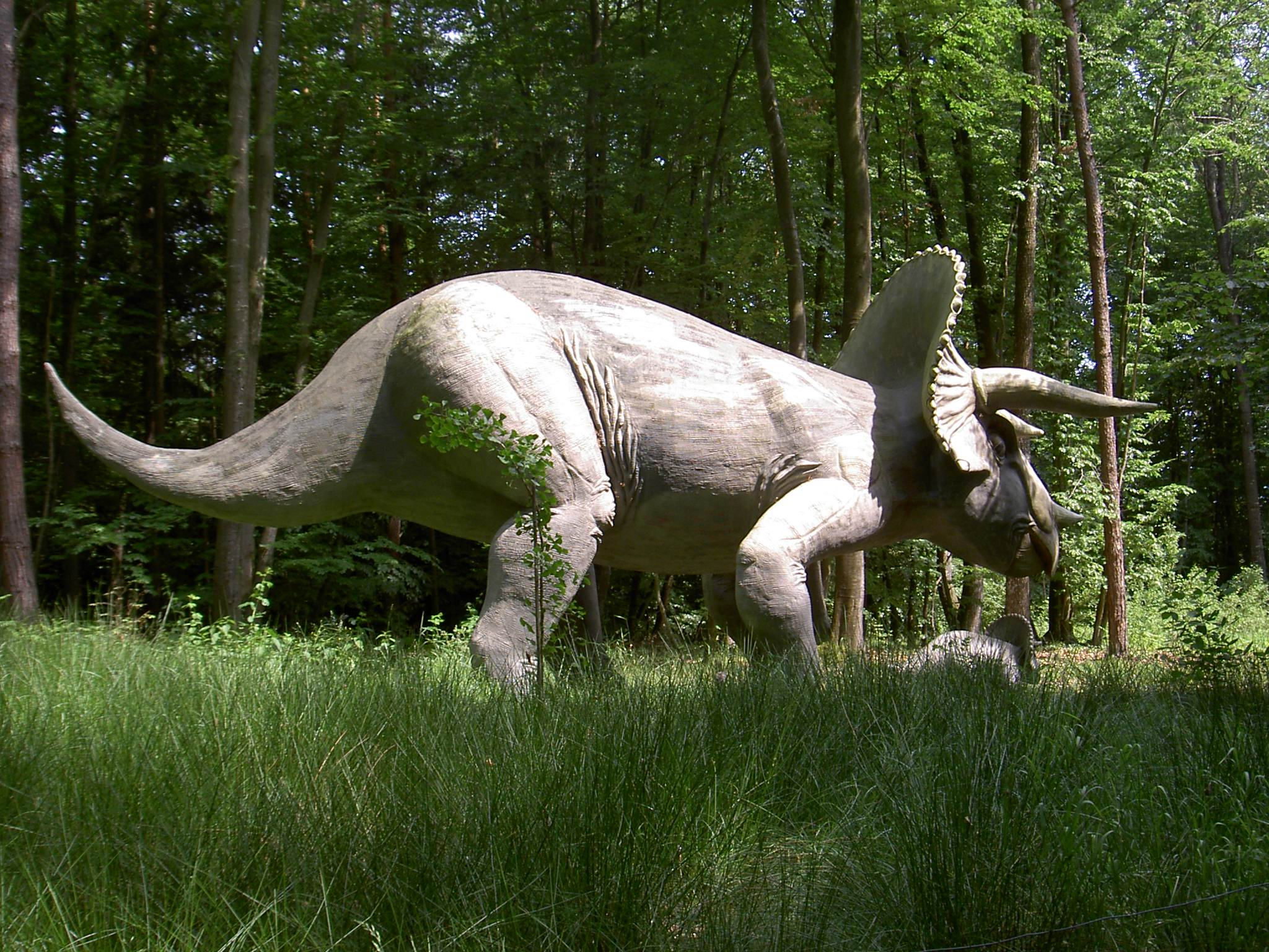 Reconstruction of Triceratops with cub, Styrassic Park, Styria